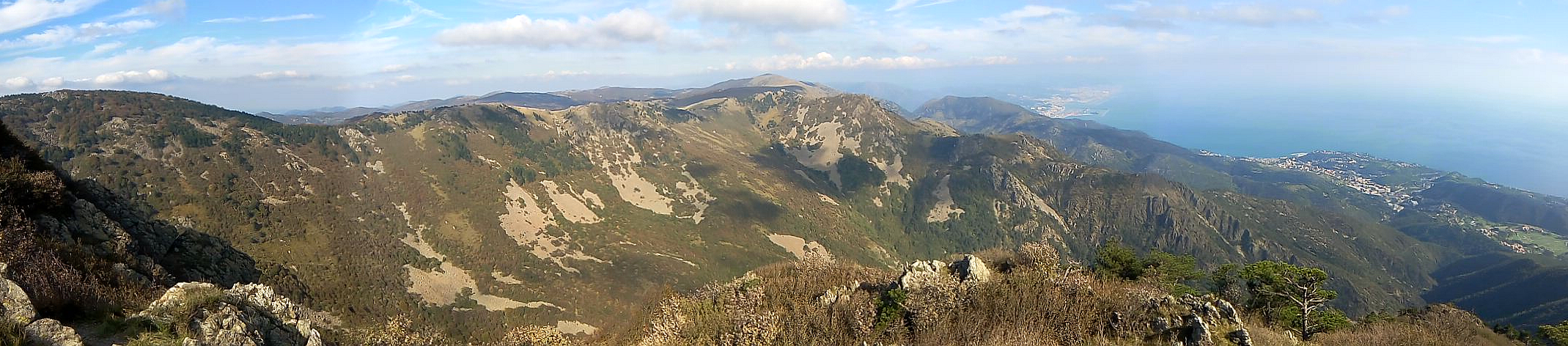 Panoramic from Bric Resunnou (Ligurian Apennines, Italy)